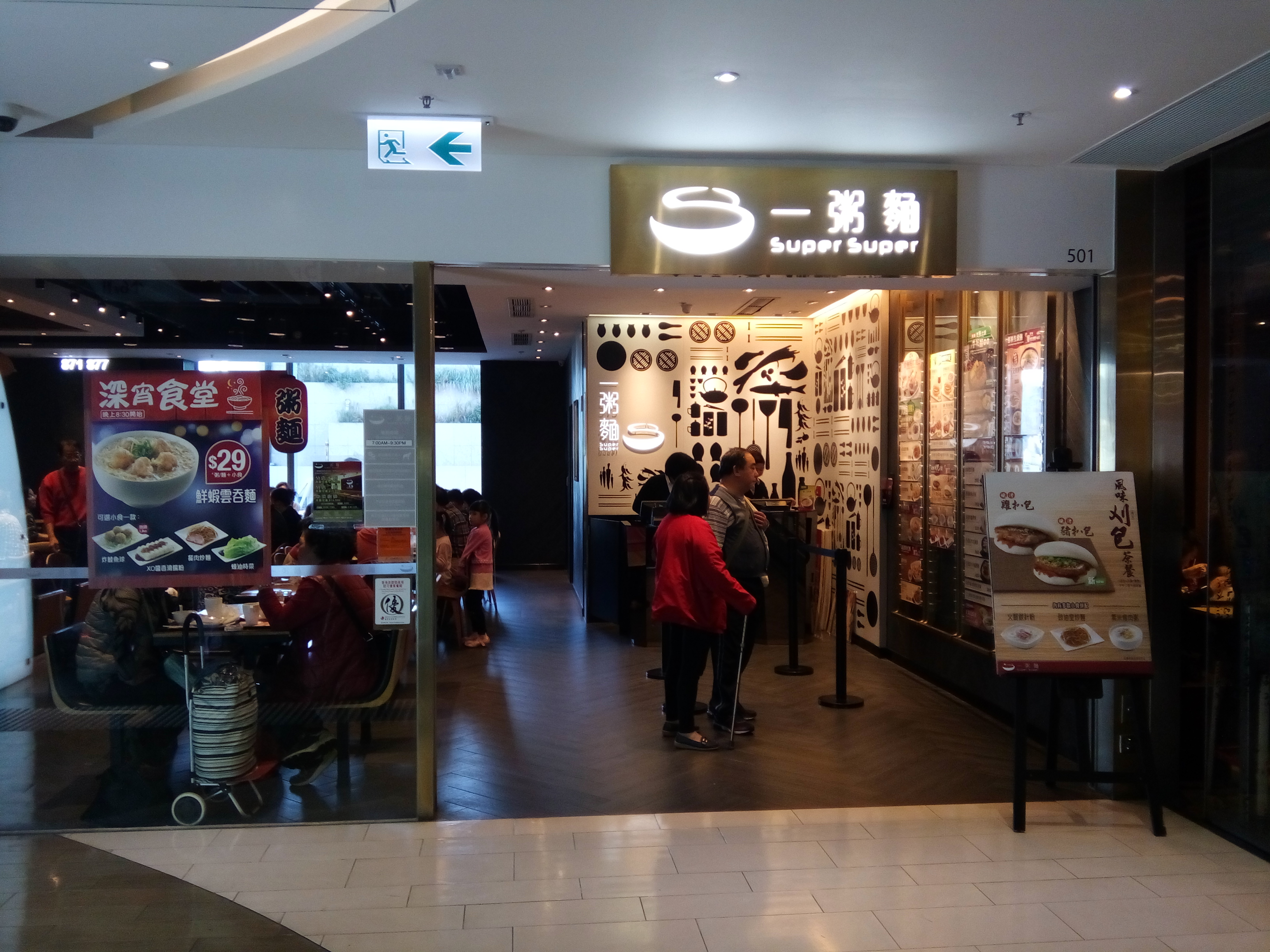 Restaurants in 上水匯 Sheung Shui Spot in Jan 2017